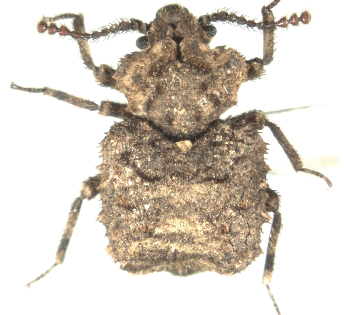 adult Brouniphylax sp. from New Zealand (Maungatautari Mountain)